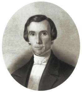 An image of theologian John David Ogilby (1810 - 1851) whose summer estate and family home in Ireland were the namesakes of Briarcliff Manor, New York.